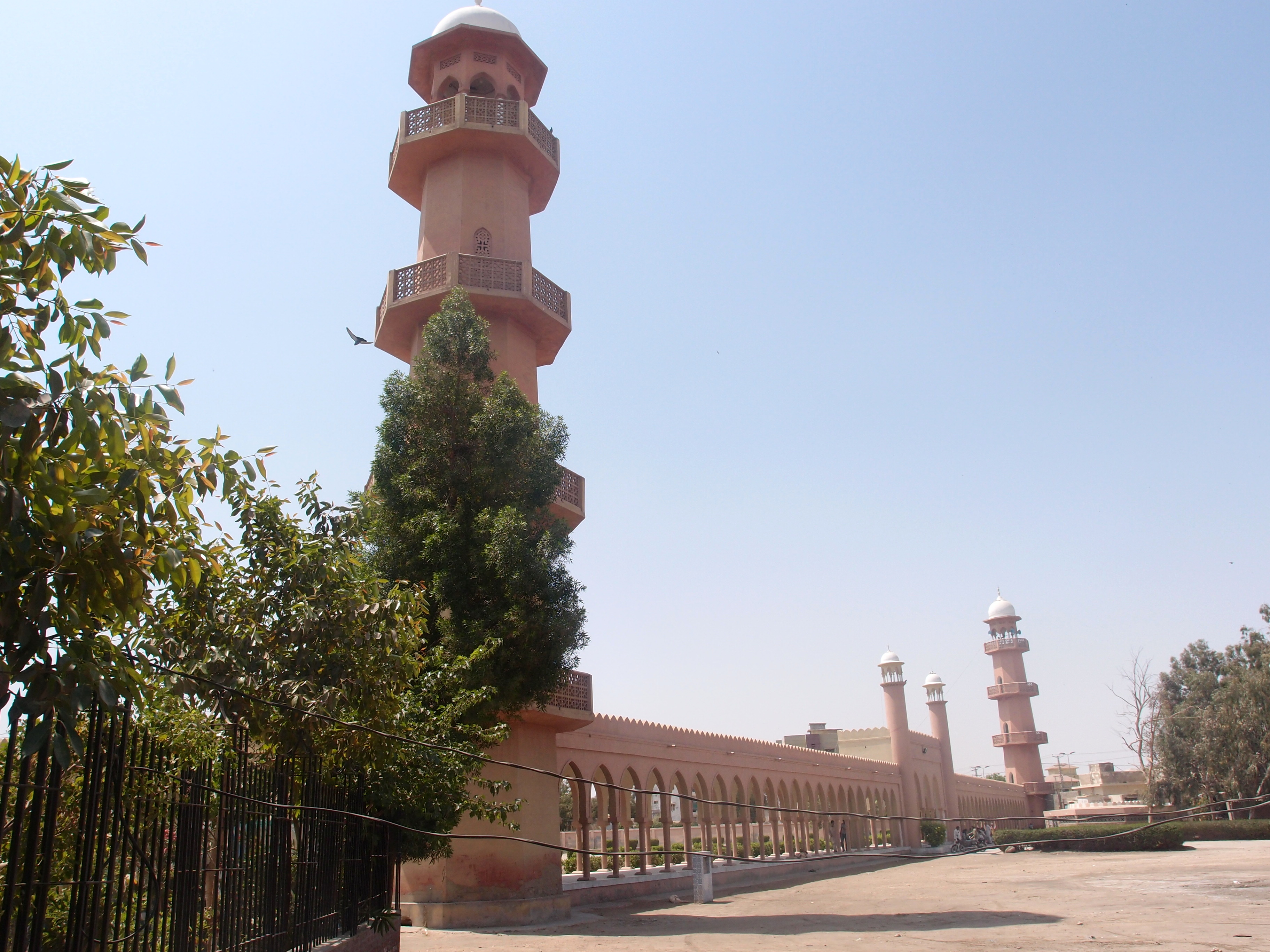 Eid gah inside Rani Bagh